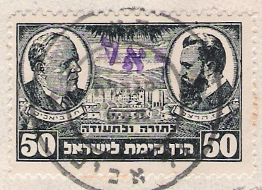 Jewish National Fund stamp with Tel Aviv's Doar overprint, May 1948, for Minhelet Haam post, Alex Ben-Arieh, Historama